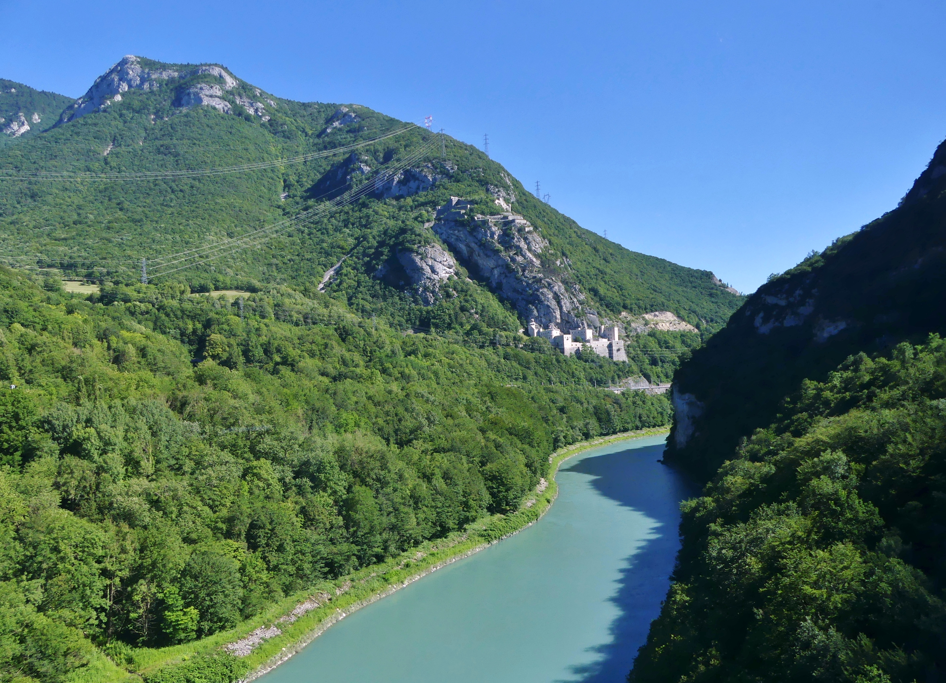 Sight in the morning, from the Longeray railway viaduct, on the défilé de l'Écluse pass crossed by the Rhône river and separating departments of Ain and Haute-Savoie, in France.